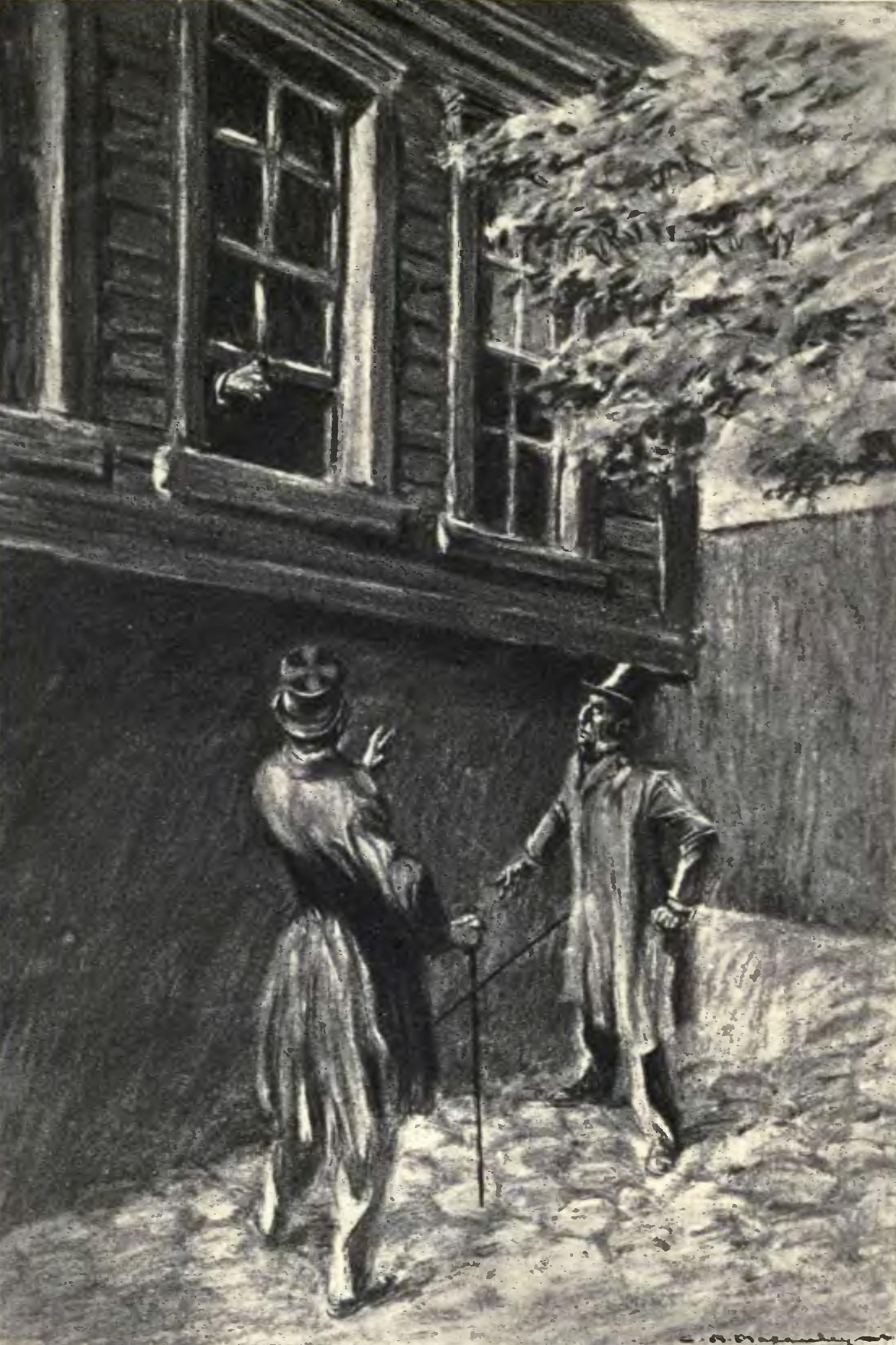 Artwork by Charles Raymond Macauley for the 1904 edition of The strange case of Dr. Jekyll and Mr. Hyde by Robert Louis Stevenson. Publisher: New York Scott-Thaw